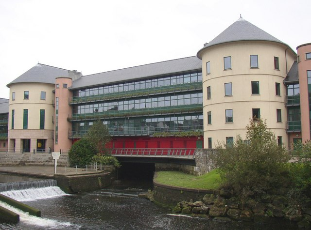 County Hall, Haverfordwest, PembrokeshireCymraeg: Neuadd y Sir, Hwlffordd, Sir Benfro